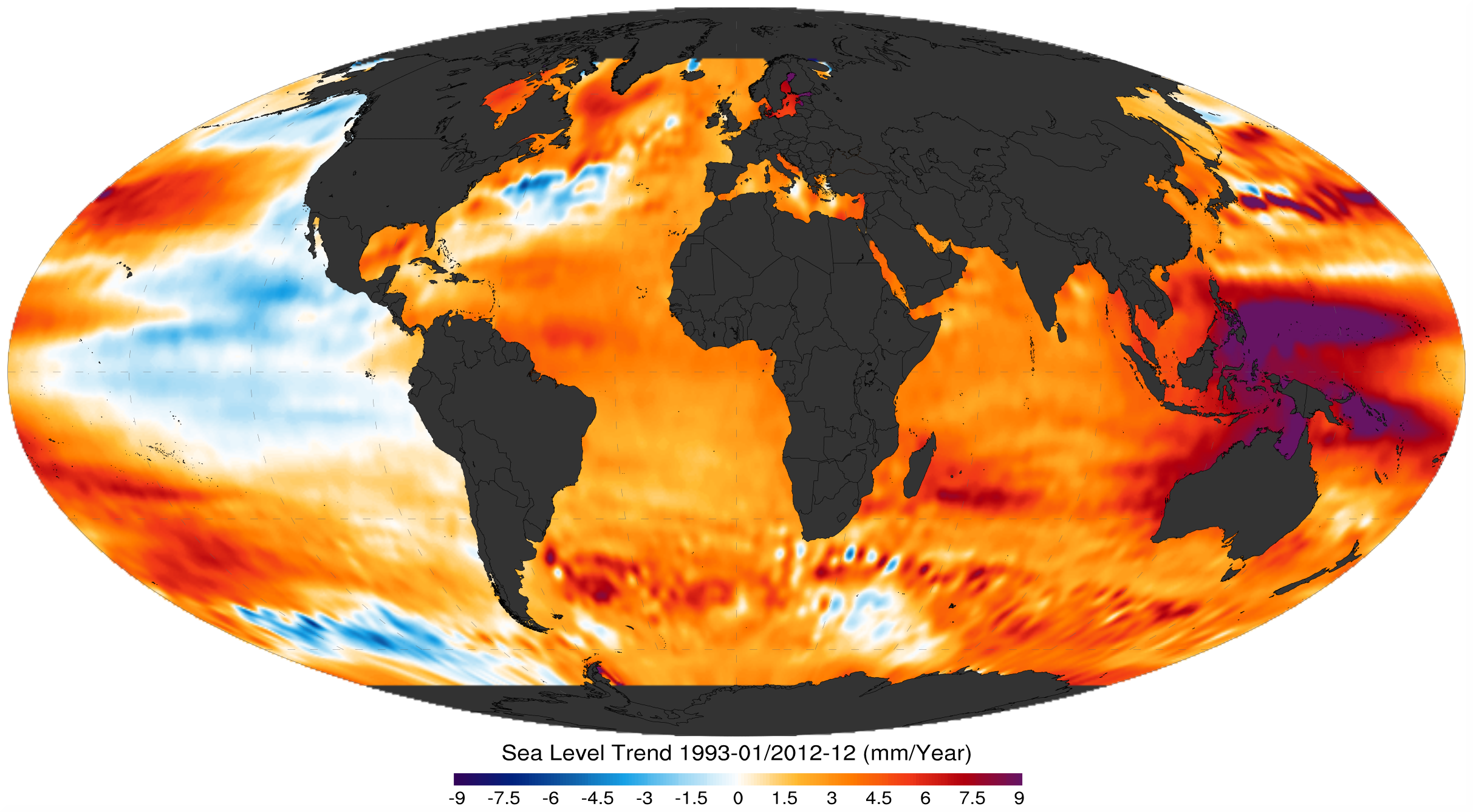 1993/2012-12 sea level trends (mm/year). Data